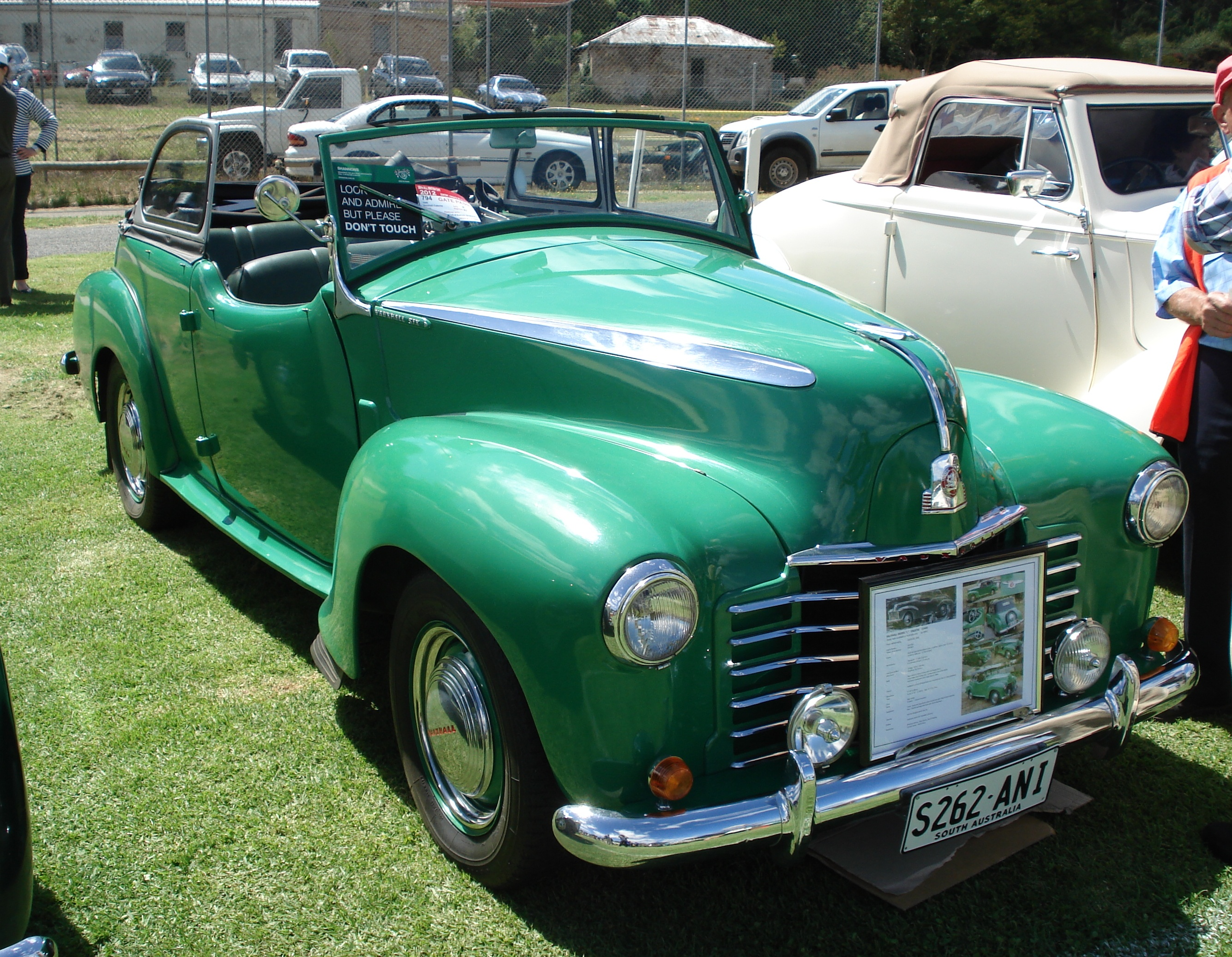 Vauxhall Velox Caleche LBP Series. As produced by General Motors-Holden's in Australia from 1949 to 1951.